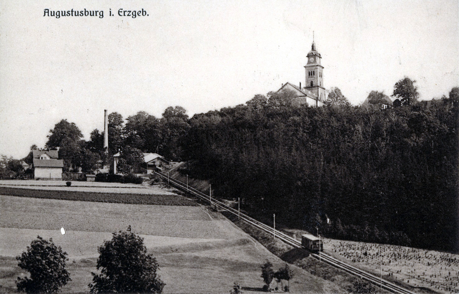 This postcard is from publisher Brück & Sohn in Meißen ( This postcard has a unique number 14387 and is available in a higher resolution at the publisher. This images was uploaded in a cooperation project between Wikipedians and the publisher.